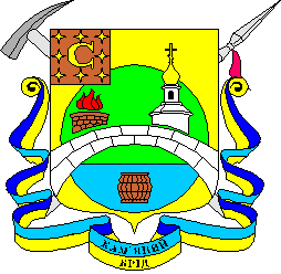 Coat of arms of Kamyanobridsky Rayon (district) in Luhansk.